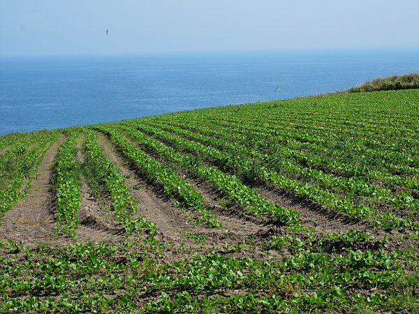 Coastal Crop